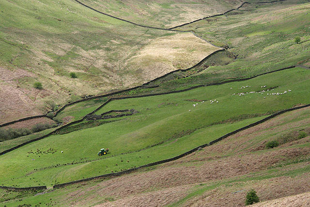 Hill farming countryside by the Arkland Burn An improved grazing field surrounded by rough grazing between Far Hill and Arkland Rig. Viewed from Arkland Craig in the adjoining square.